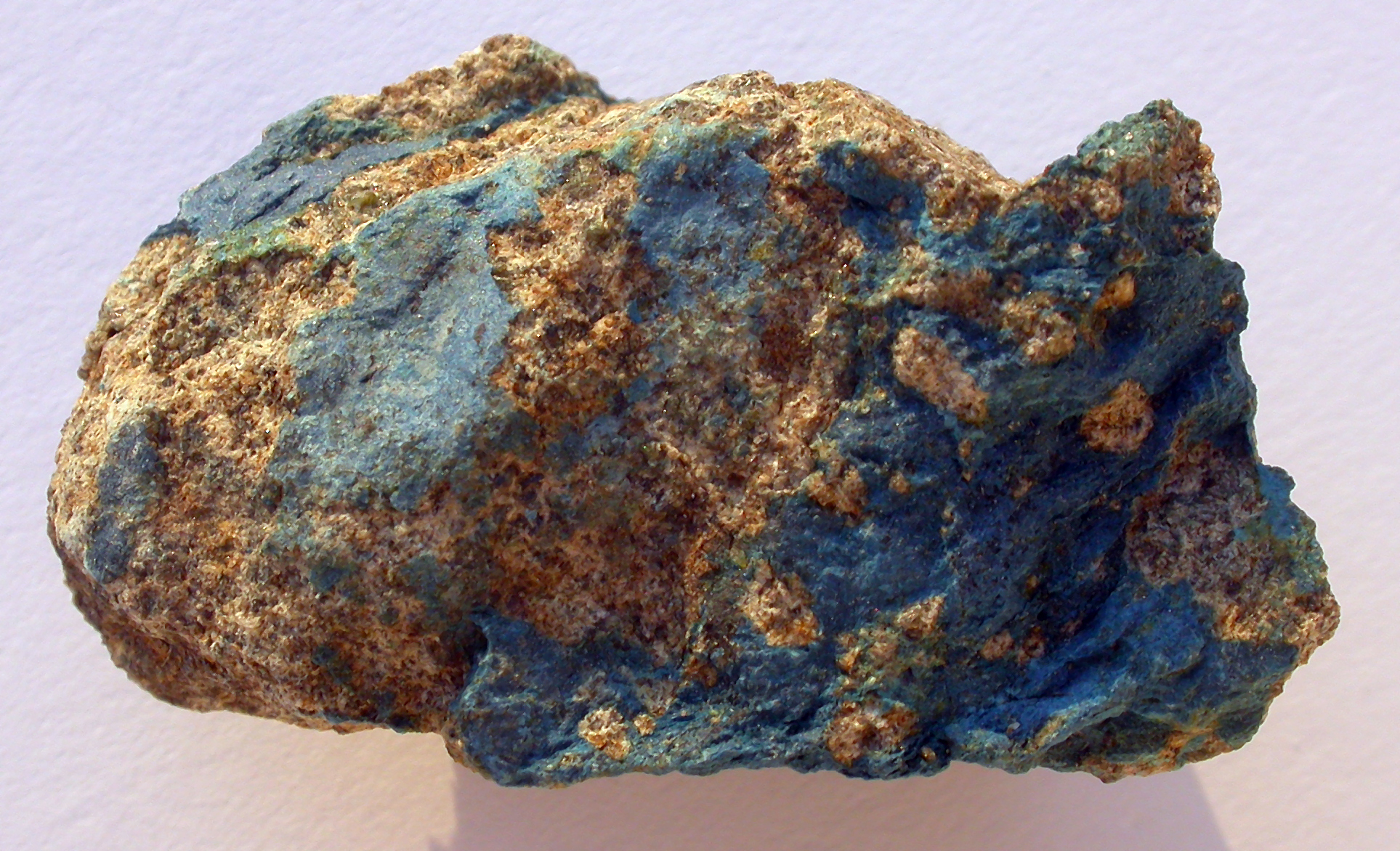 Aerinit (Aërinit) from Estopiñán del Castillo, Spain